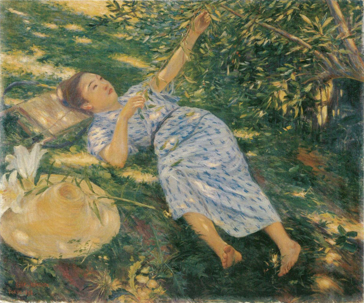 Under the Shade of a Tree, by Kuroda Seiki, Woodone Museum of Art, Hatsukaichi, Hiroshima, Japan